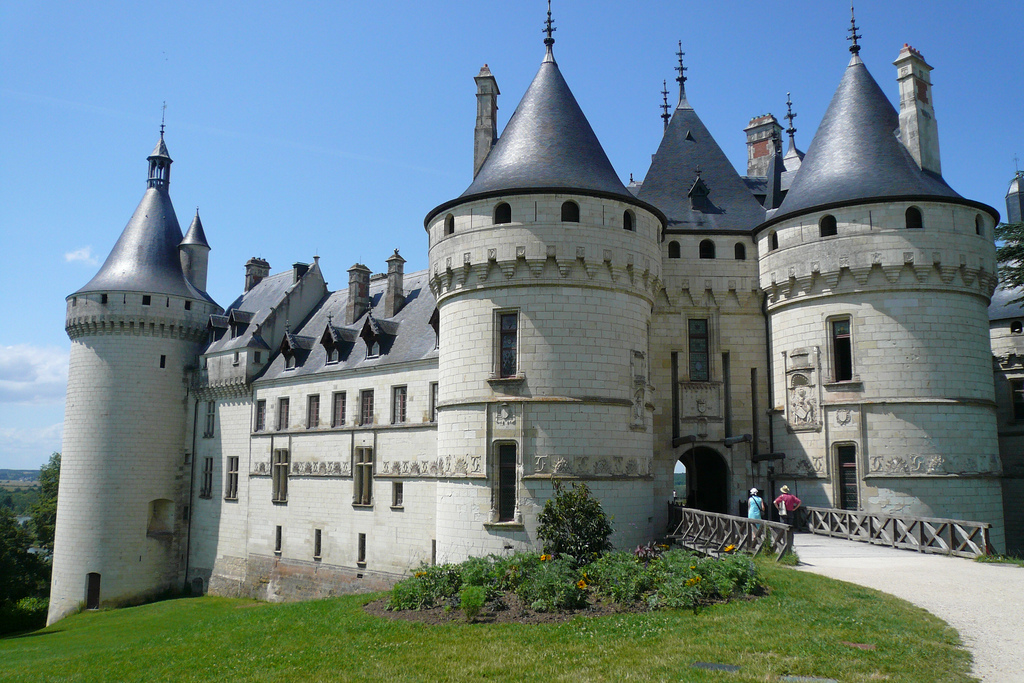 The Château de Chaumont was (of course) at the top of the hill overlooking the Loire river. The last woman to own this castle, Marie-Charlotte Say, was high maintenance and had the entire village (including cemetery) razed and rebuilt at the bottom of the hill.